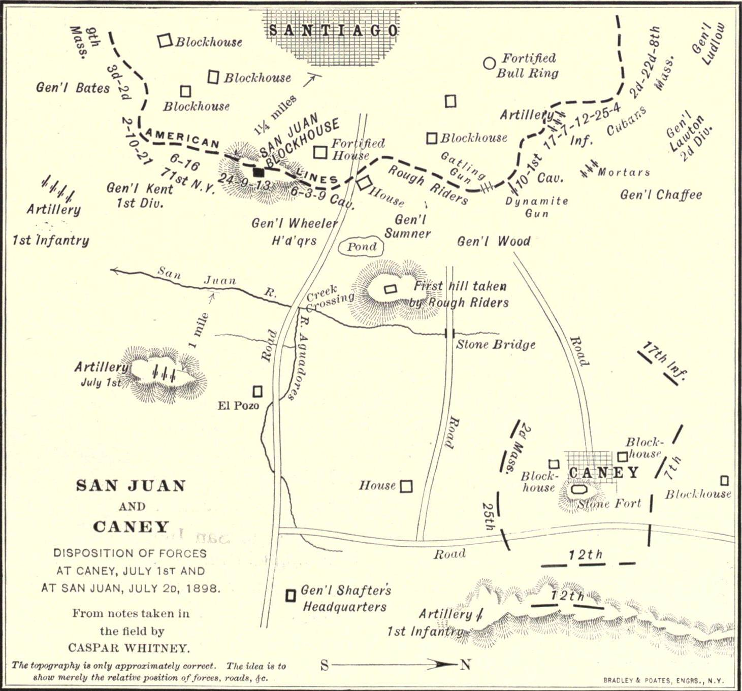 San Juan and El Caney - Disposition of forces at Caney, July 1st and at San Juan, July 2, 1898. From notes taken in the field by Caspar Whitney. The topography is only approximately correct. The idea is to show merely the relative position of forces, roads, etc. Artillery and mortar positions shown on san Juan Ridge - were not taken until after July 3. From p. 333 of Harper's Pictorial History of the War with Spain, Vol. II, published by Harper and Brothers in 1899.